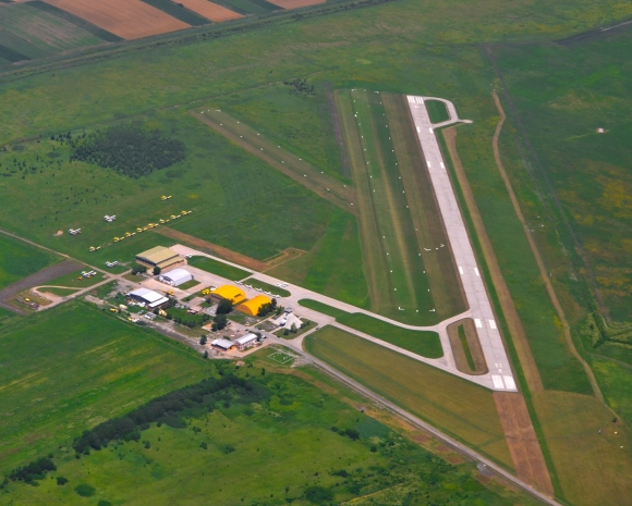 SMATSA Aviation Academy (SAA), Beograd, Serbia